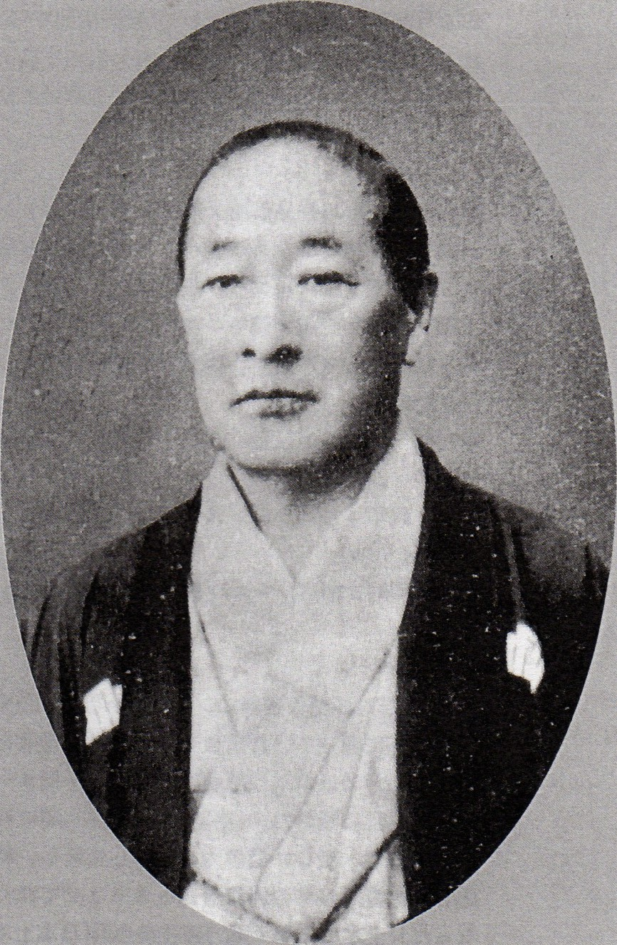 OGAWA Katsugoro, a civil engineer in the 19th century Japan. He constructed many railway bridges.